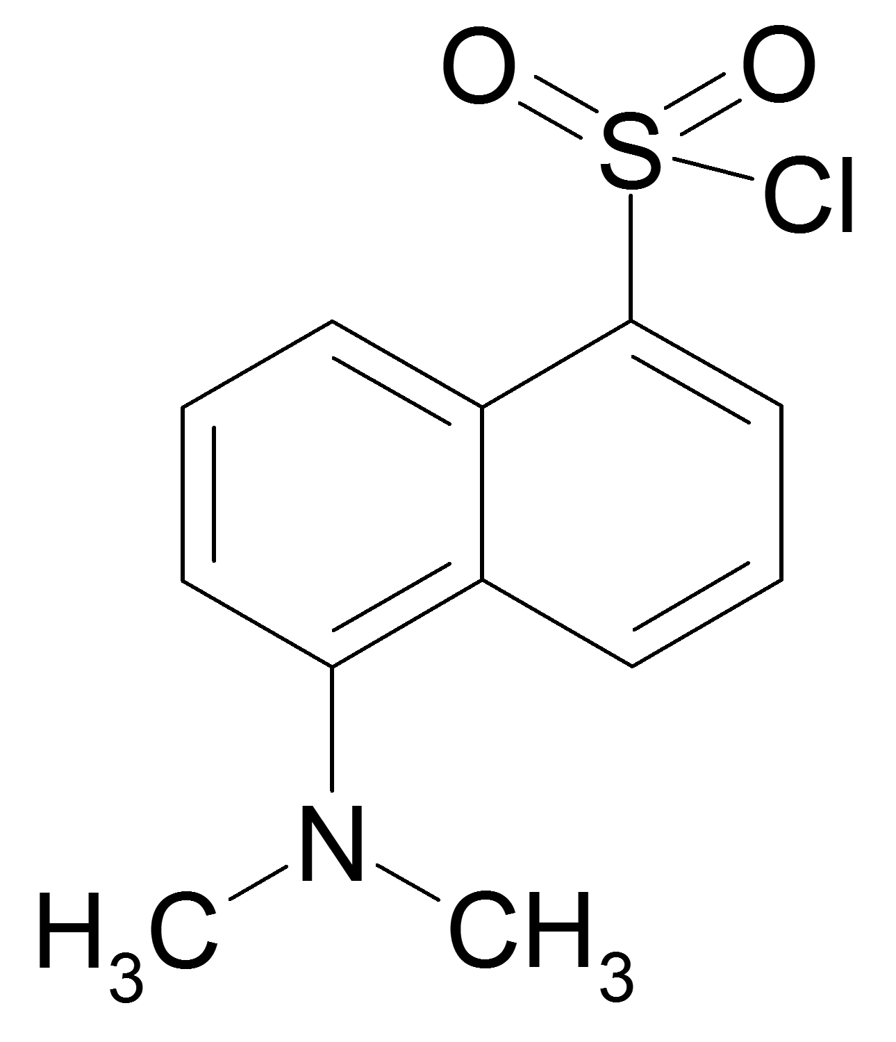 Dansyl chloride (5-(Dimethylamino)naphthalene-1-sulfonyl chloride)